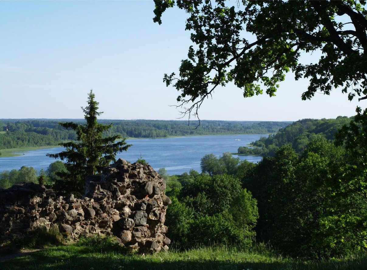 View of Viljandi lake